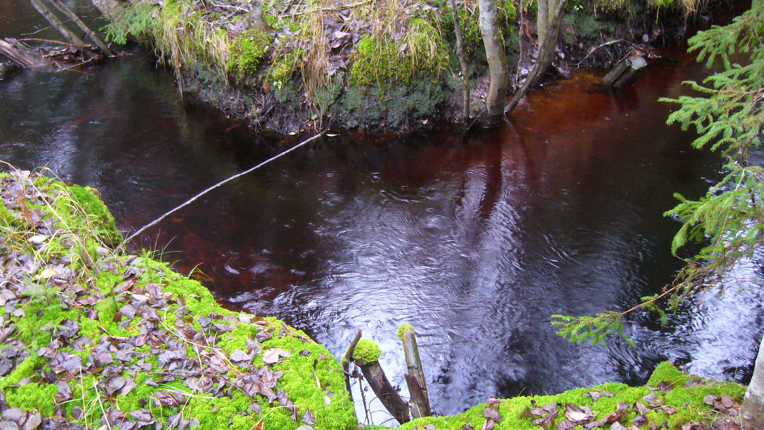 Kovasluoma (also known as Kovasluoma) river in southwest Jalasjärvi, Finland.